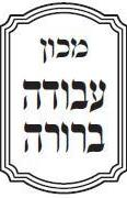 Logo of Avoda Brura Institute